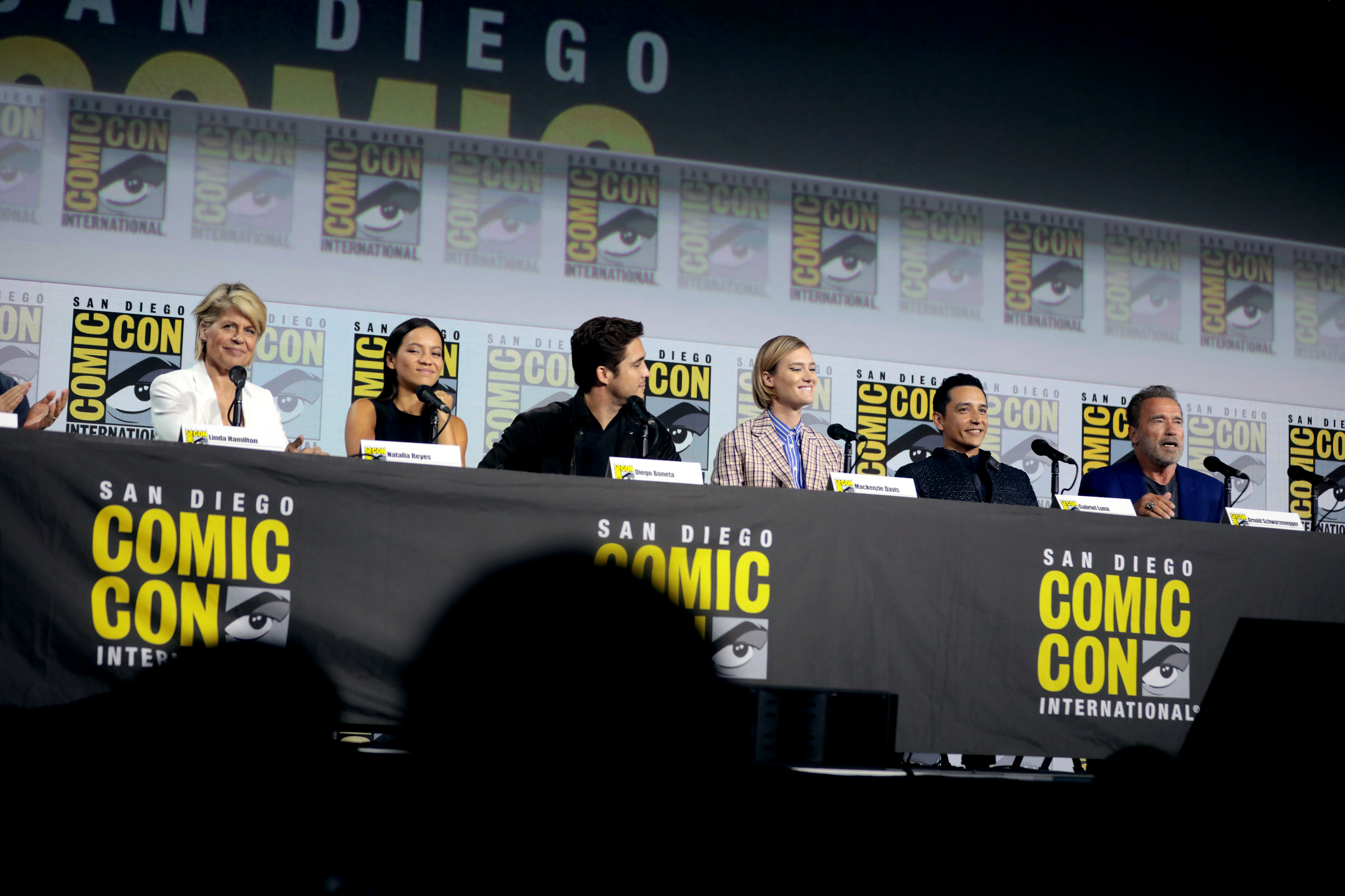 Linda Hamilton, Natalia Reyes, Diego Boneta, Mackenzie Davis, Gabriel Luna and Arnold Schwarzenegger speaking at the 2019 San Diego Comic Con International, for "Terminator: Dark Fate", at the San Diego Convention Center in San Diego, California.